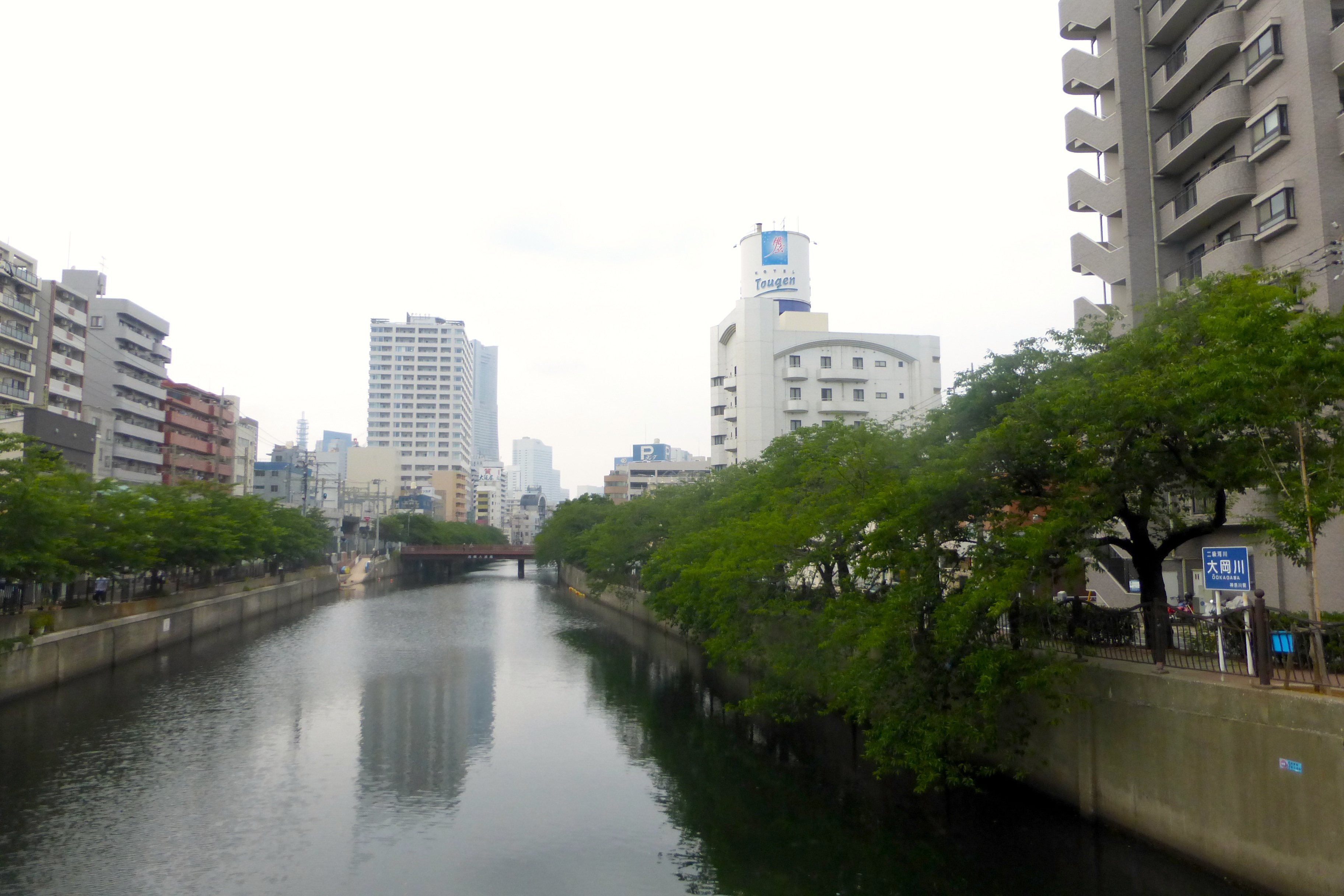 Ōoka River (大岡川 Ōoka-gawa) is a river that flows through Yokohama, Japan.